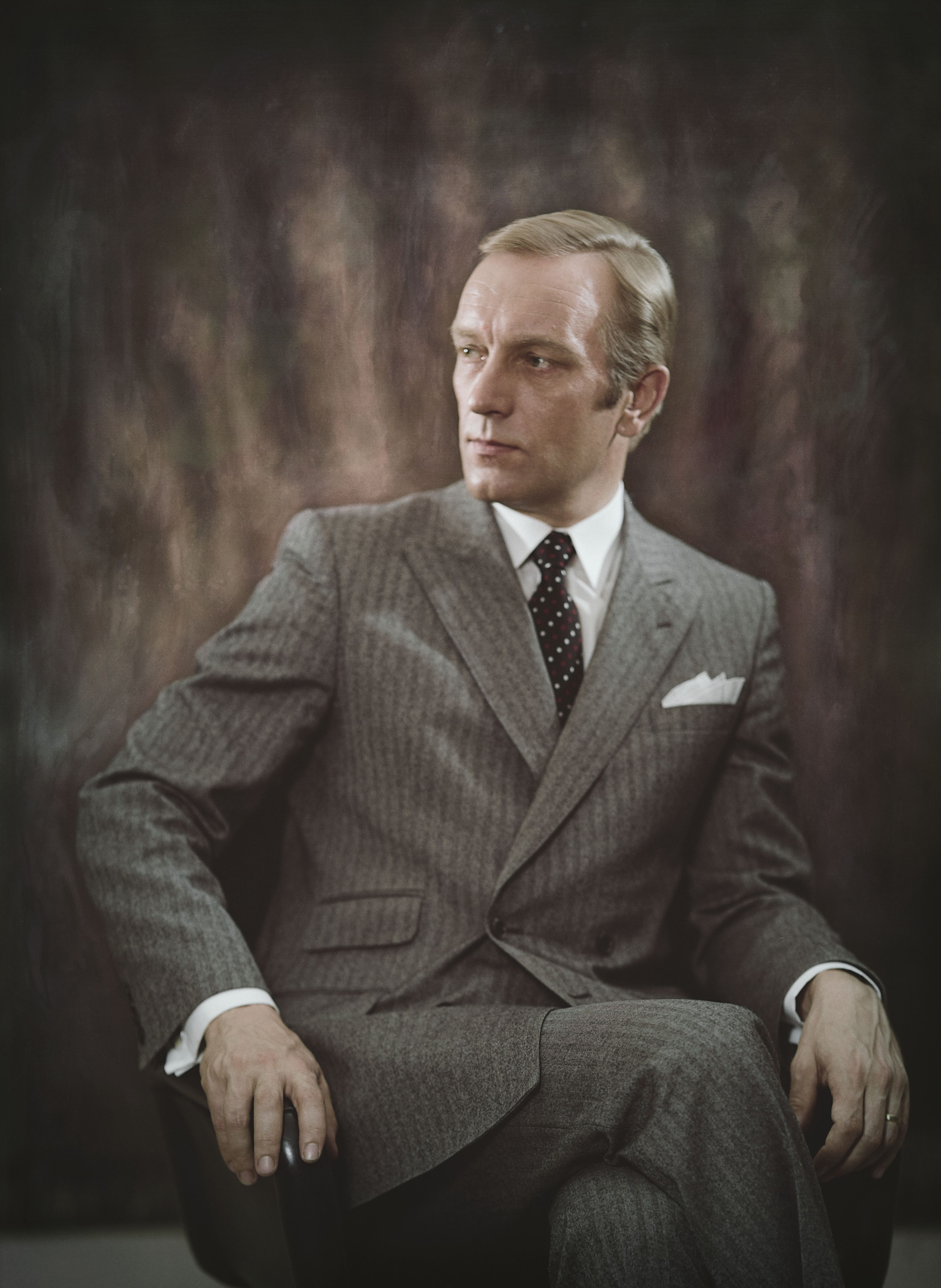 Photograph of the Finnish politician Harri Holkeri (1937–2011).